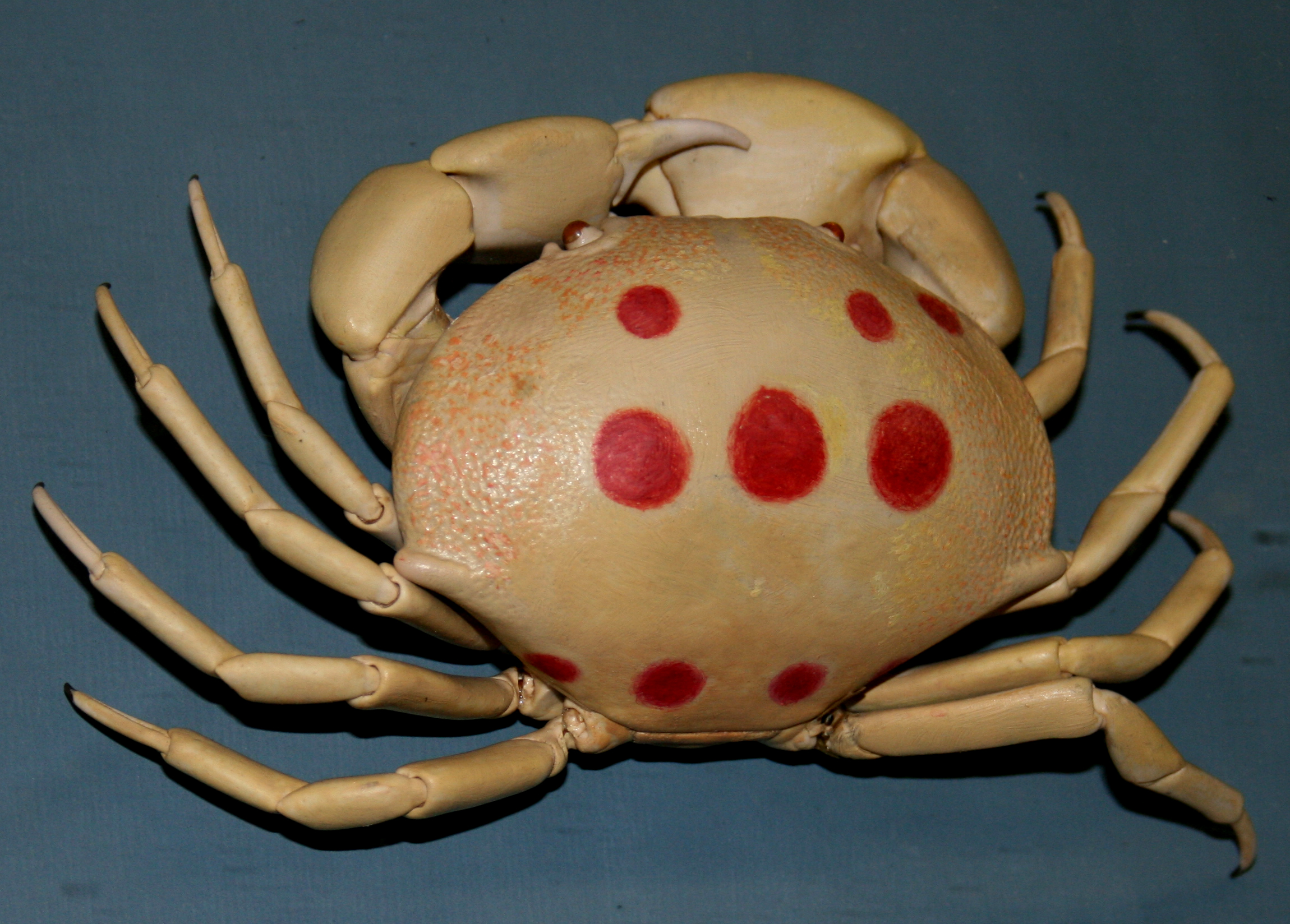 Crab (Carpilius maculatus) from National Museum, Prague, Czech Republic